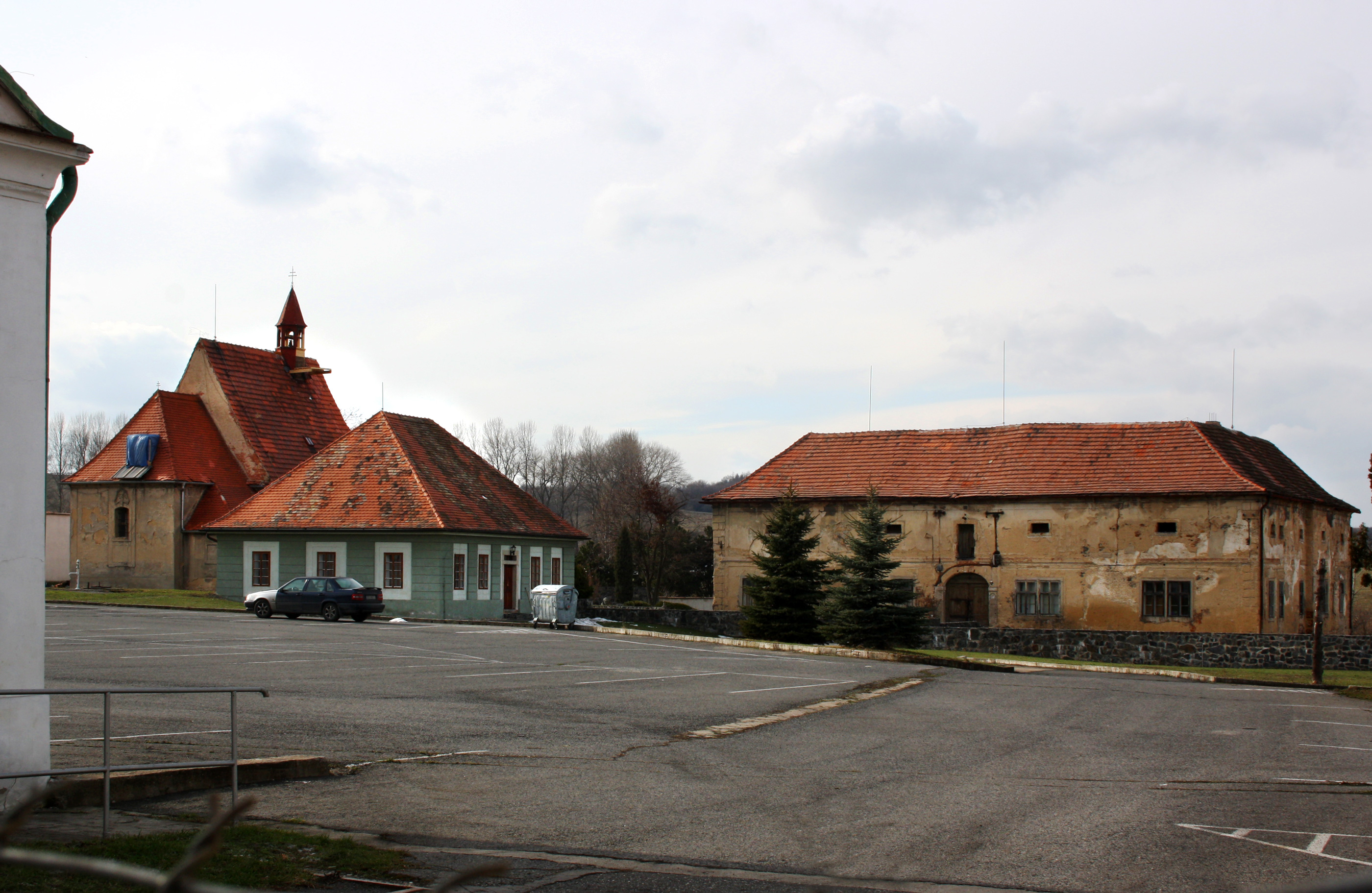 Former castle in Pakoměřice, part of Bořanovice village, Czech Republic